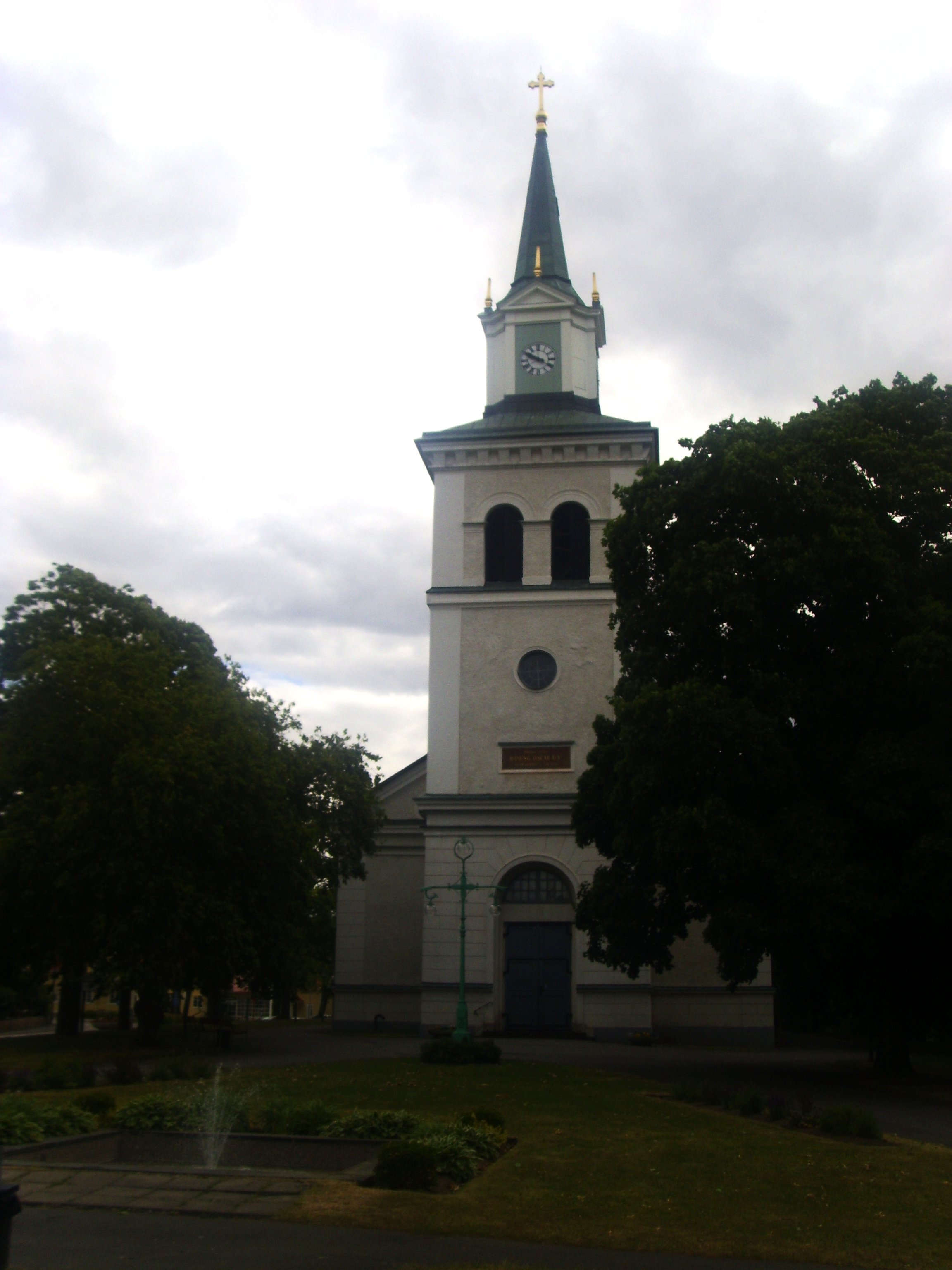 The church in Vimmerby.